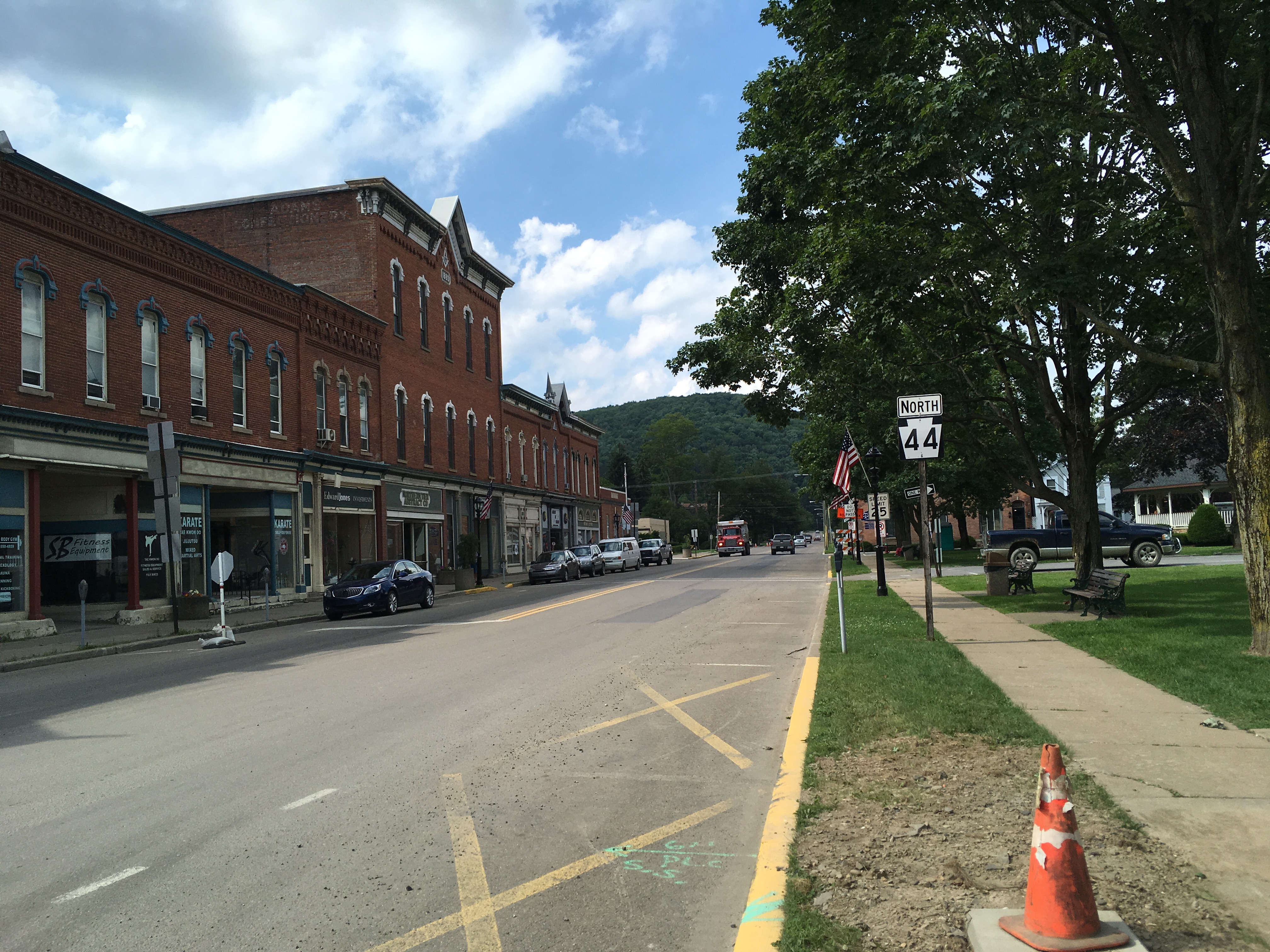 Northbound Pennsylvania Route 44 (Main Street) past the intersection with U.S. Route 6 (Main Street/2nd Street) in Coudersport